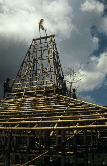 Bamboo skeleton of a house under construction at Kabunduk